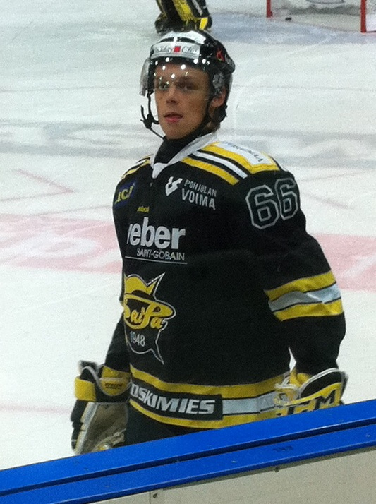 Latvian ice hockey winger Roberts Jekimovs playing for Lappeenranta SaiPa of the Finnish SM-liiga in September, 2011.